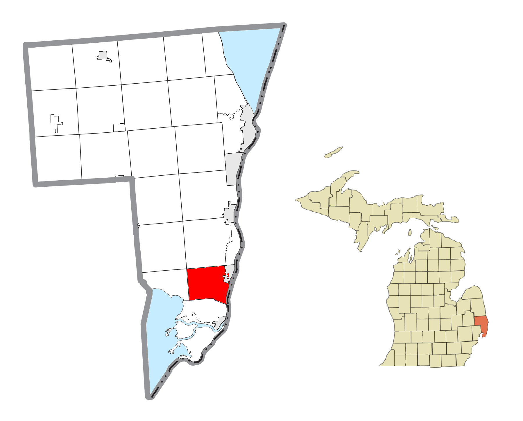 Cottrellville Township, MI